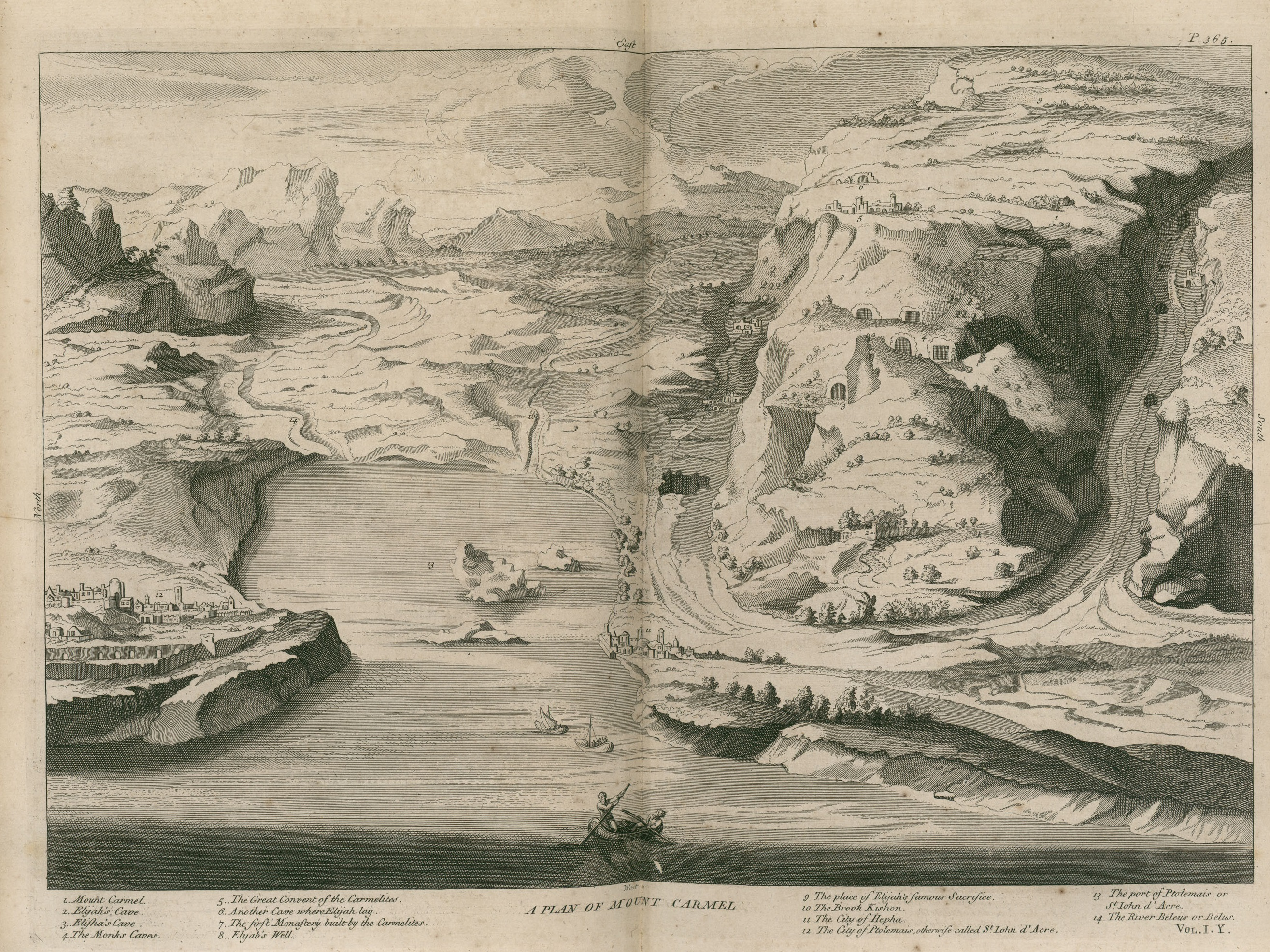 A Plan of Mount Carmel, 1732